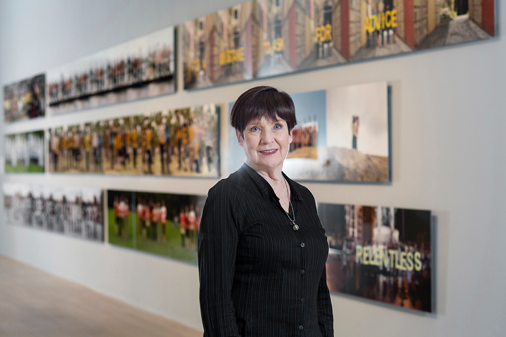 Sue Williamson at her 2015 solo show at the SCAD Museum of Art. Image courtesy of Marc Newton & SCAD Museum of Art